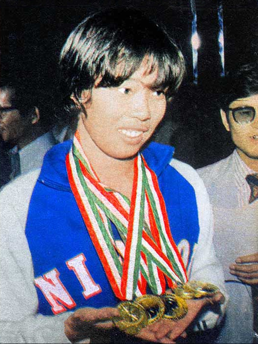 Yoshimi Nishigawa, 1974 Asian Games in Tehran